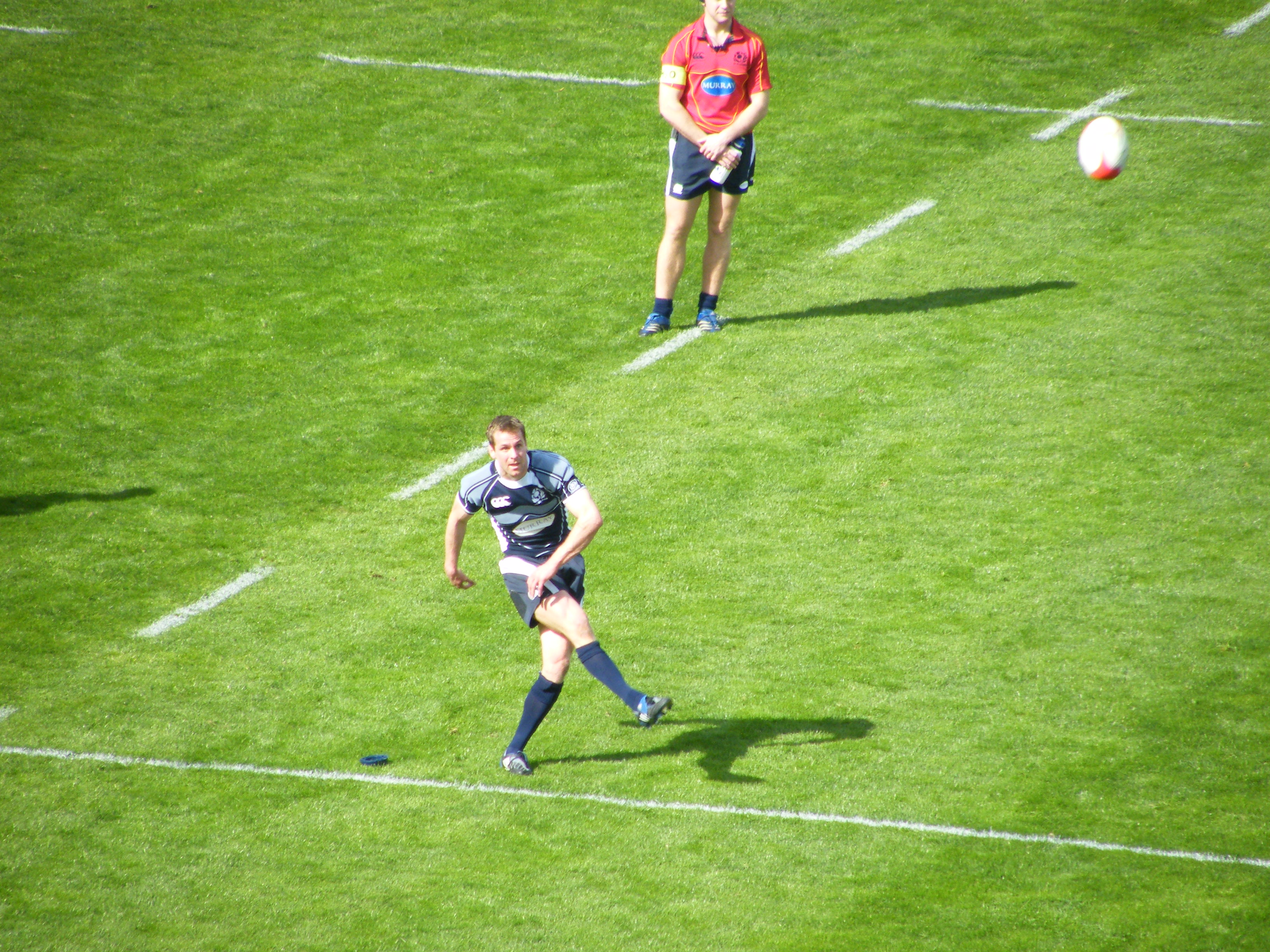 Chris Paterson kicking a penalty during RBS Six Nations 2008 Italy vs Scotland rugby game, Rome, Stadio Flaminio, 15th March 2008